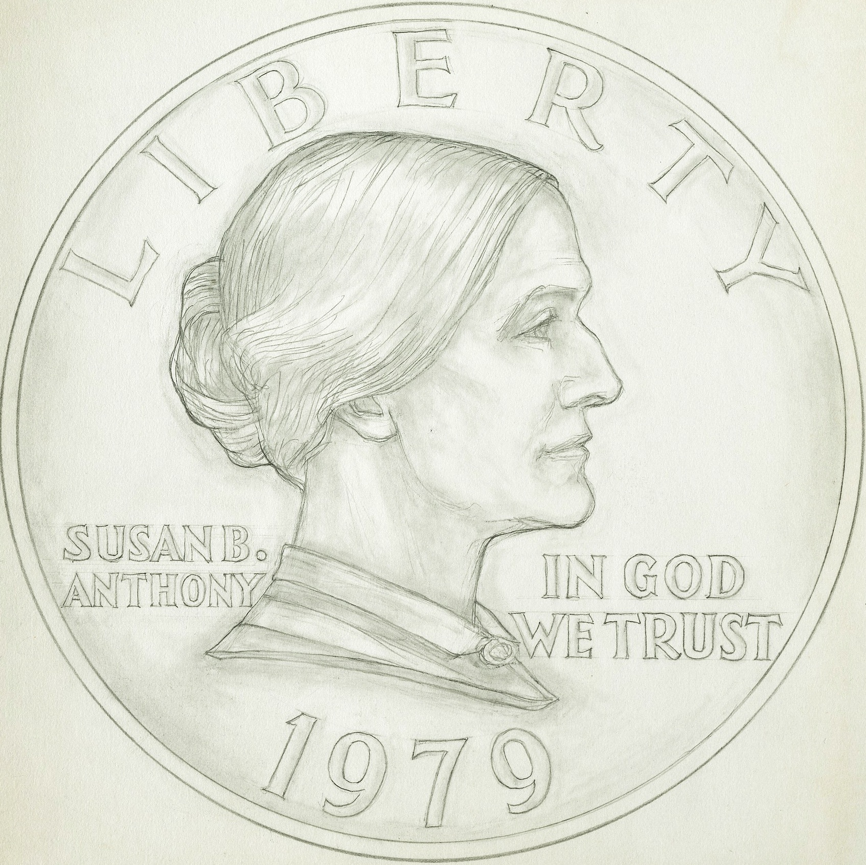 Frank Gasparro's proposed obverse design for the Susan B. Anthony dollar